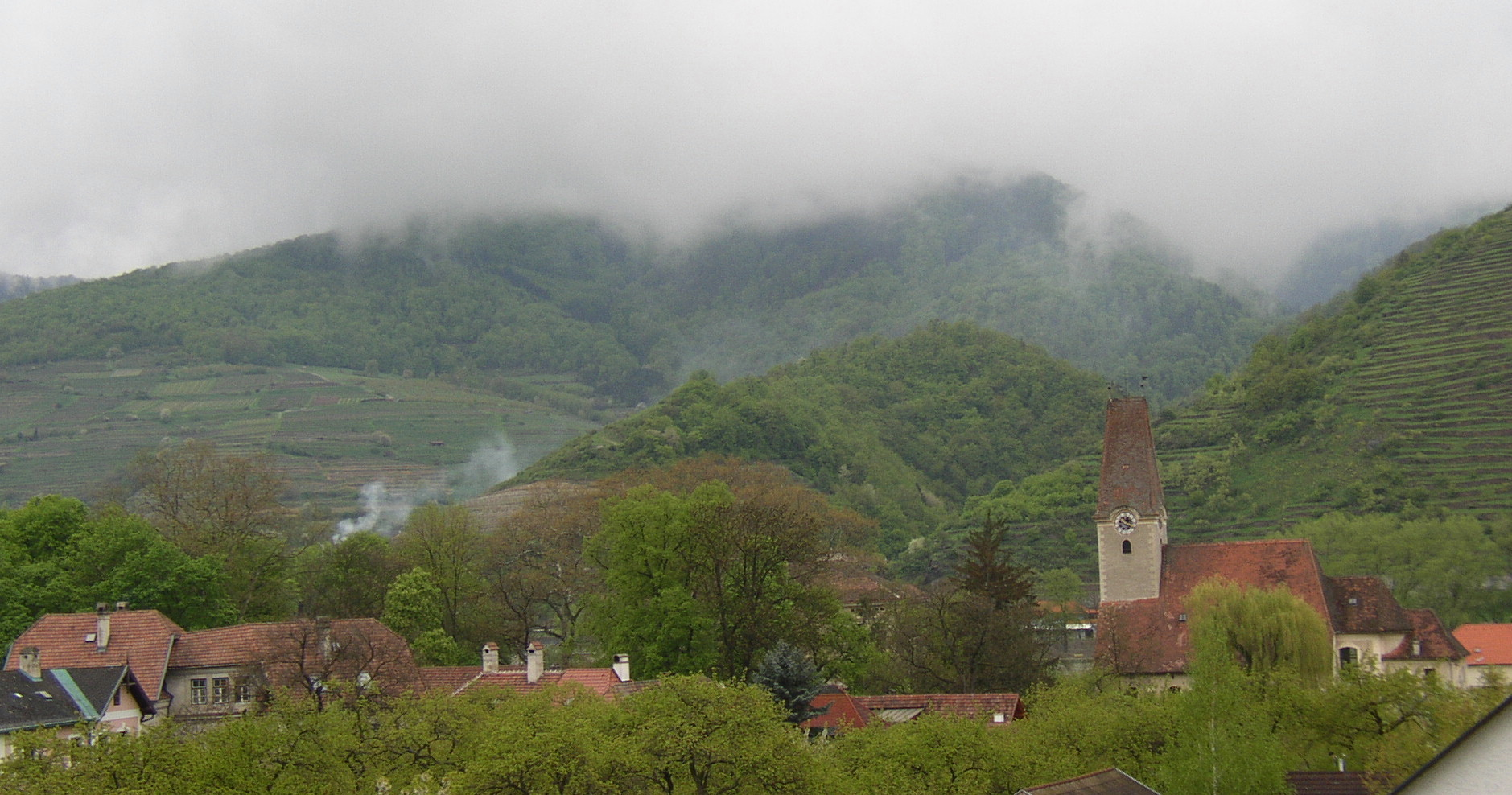 View of Hofarnsdorf, community Rossatz-Arnsdorf, in Wachau valley. In the background the slopes of the Waldviertel rise above Spitz, located at the opposite banks of the Danube.